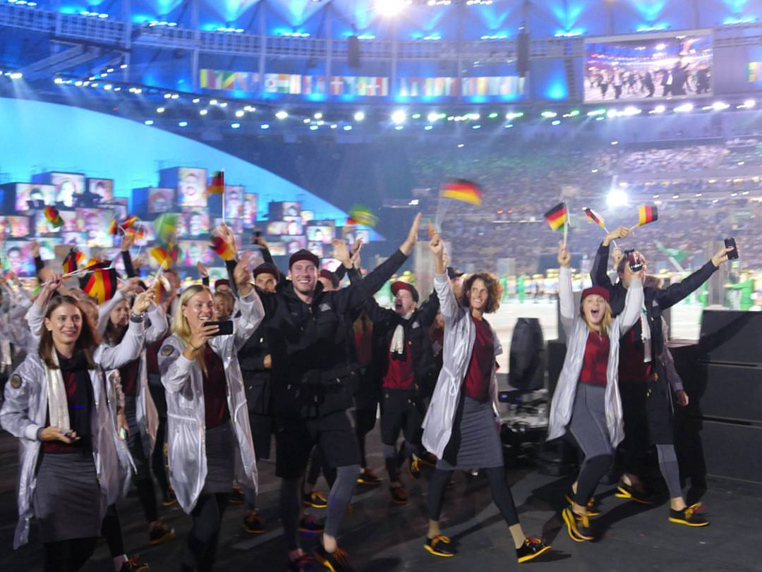 Delegation of Germany at the opening ceremony of the 2016 Summer Olympics in Rio de Janeiro.